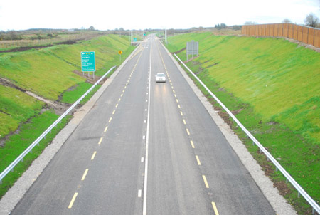 Pic of N5 road in Co Mayo from overbridge